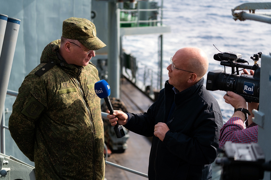 original caption: Foreign Journalists working on ships of the Russian Navy in the Mediterranean Sea.